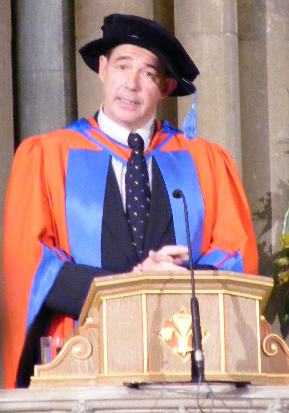 Jonathon Porritt, English environmentalist and writer, receiving honorary degree from University of Exeter in 2008